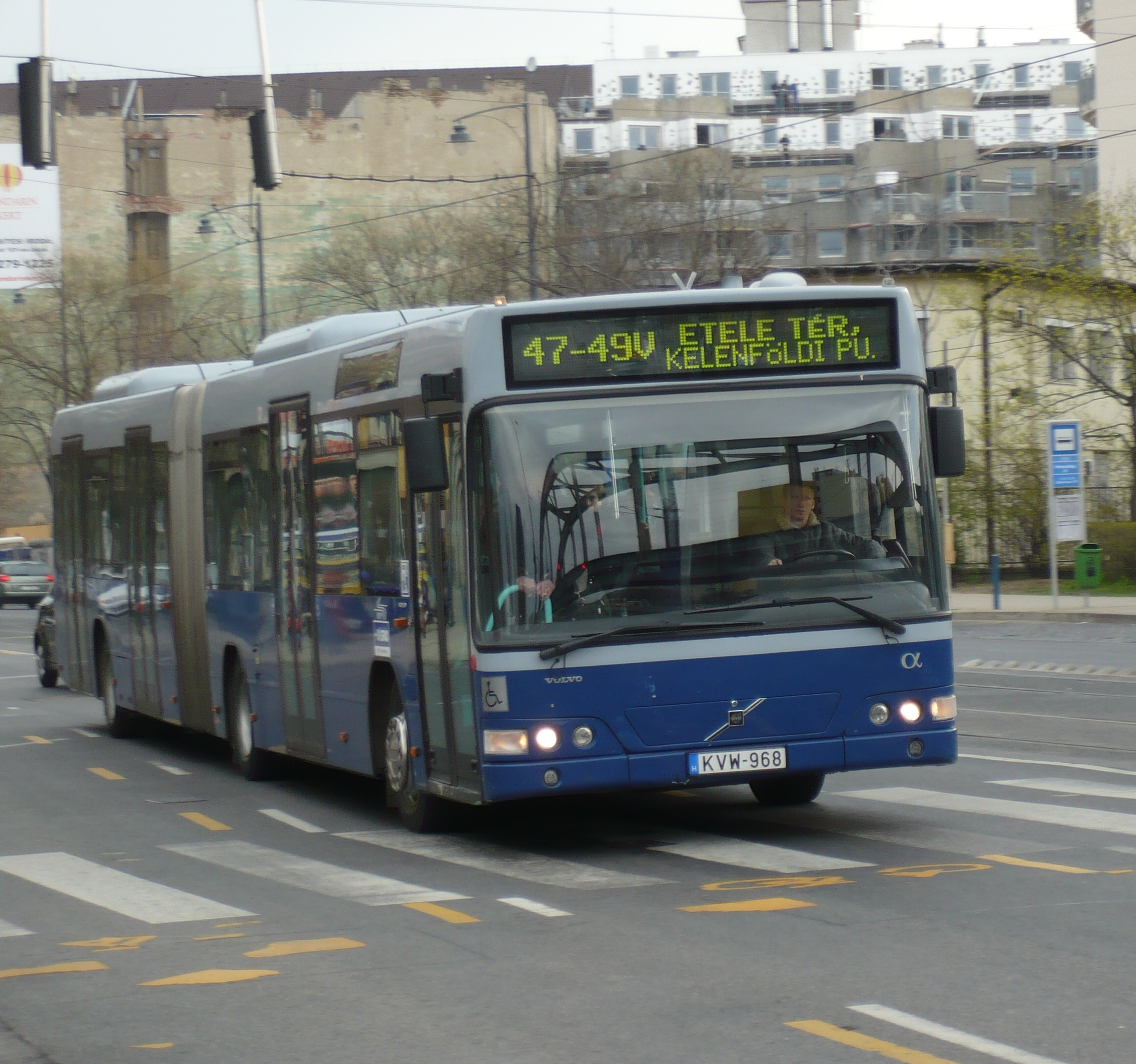 Volvo 7000A bus in Budapest on line 47-49V. Year built 2000. Made it Alfa Busz company?